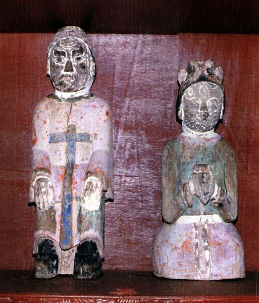 Statue of gods worshipped at the village shrine of Okgwa, South Korea. Left is the twelfth-century minister Jo Tong; right is his lover, the shaman-princess Gongsim.